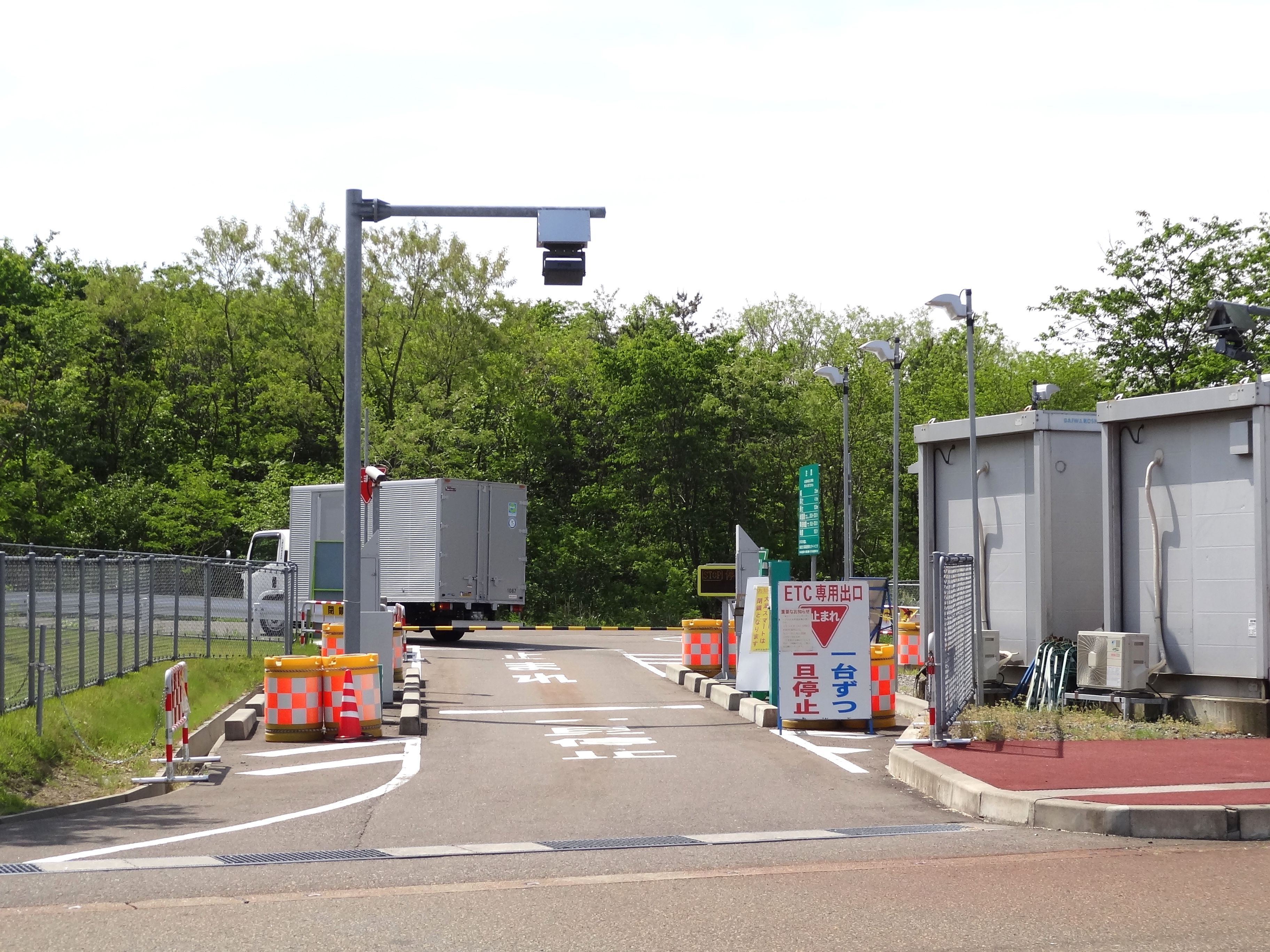 Ogata Smart Interchange on the Hokuriku Expressway inbound line